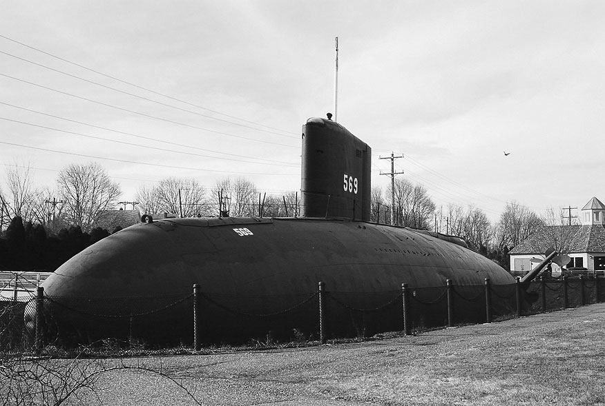 USS Albacore submarine on display in Portsmouth, New Hampshire, March 2006.